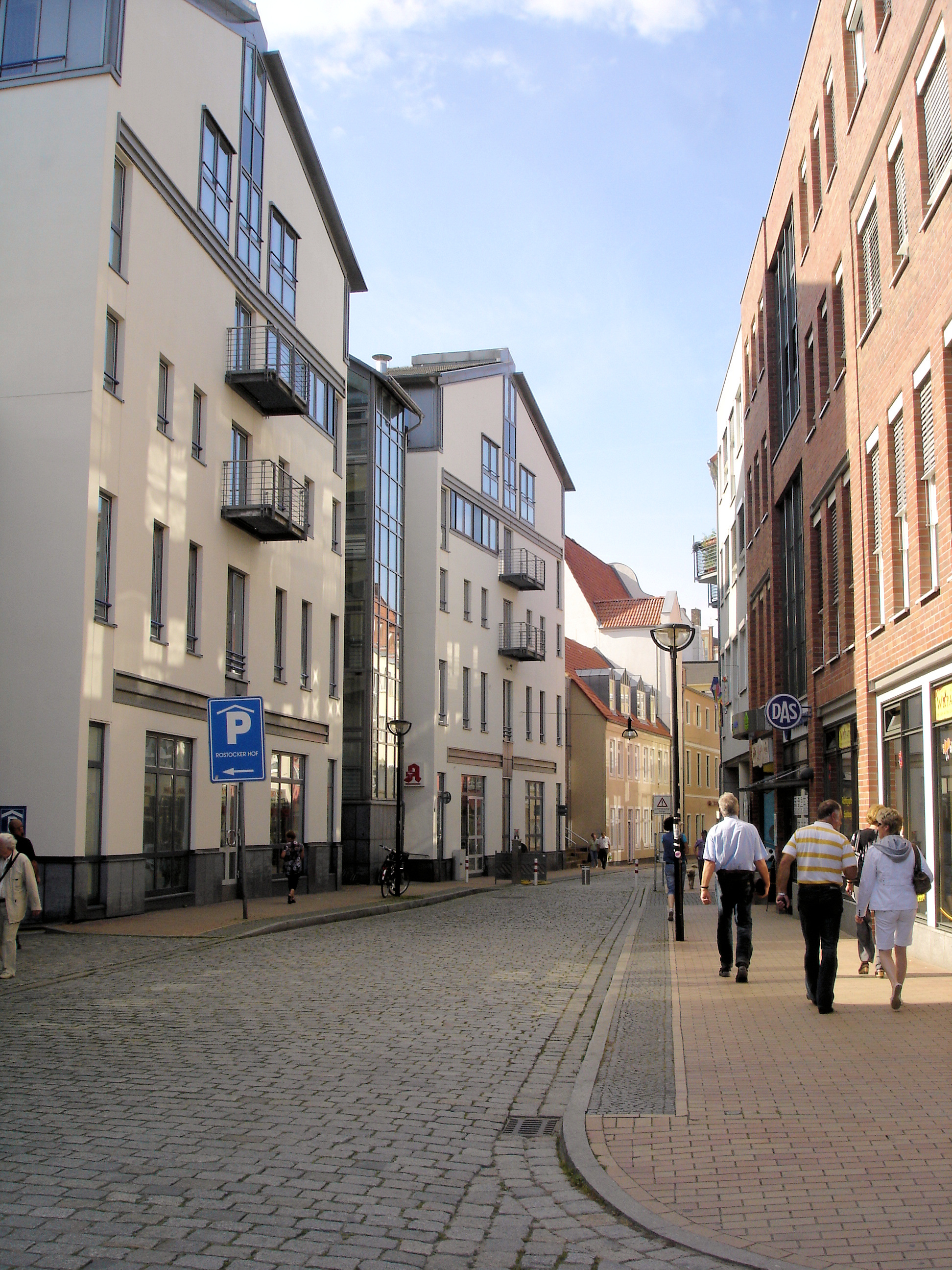 Street in the historic city of Rostock